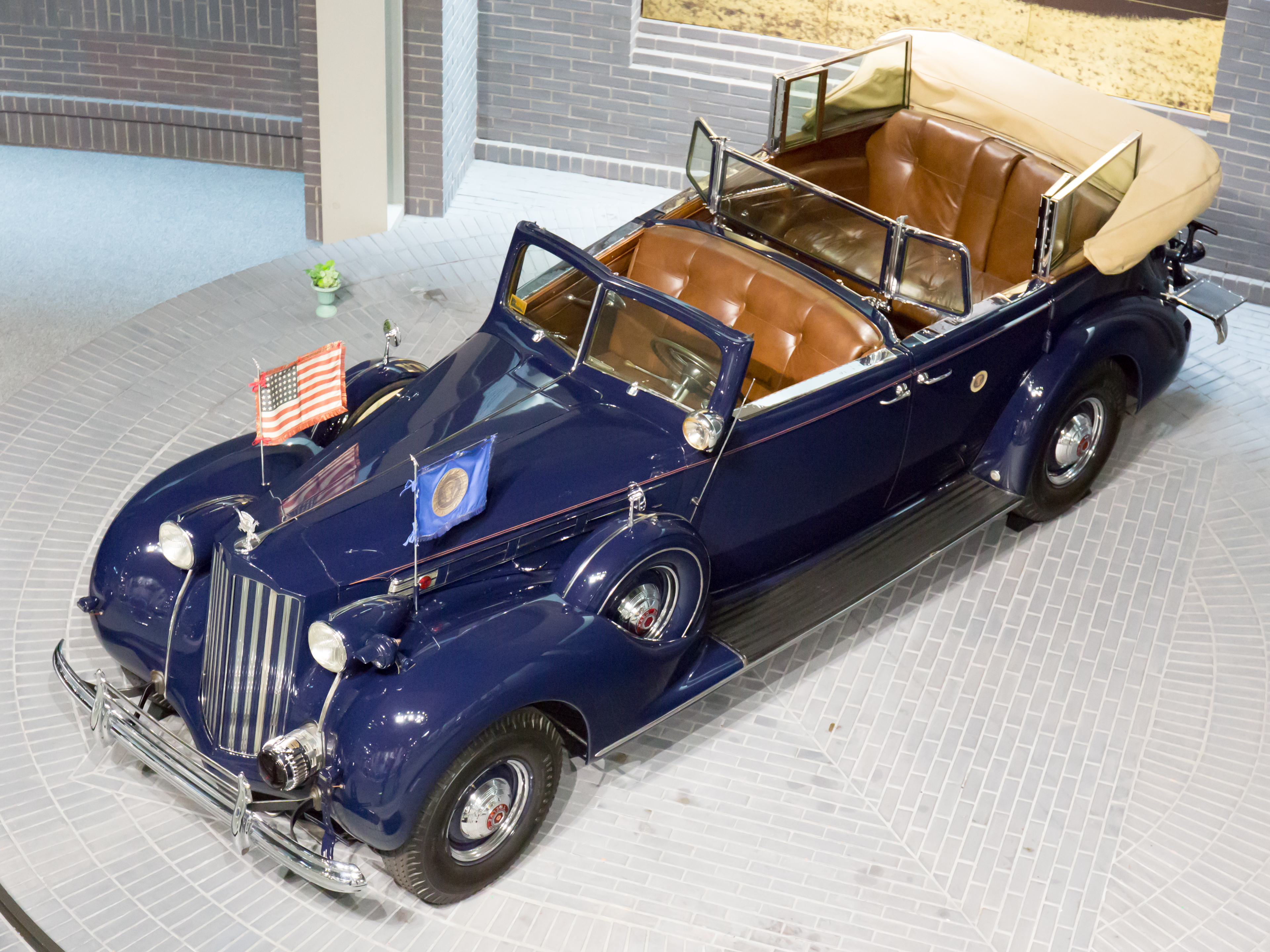 1939 Packard Twelve, Franklin Delano Roosevelt presidential car